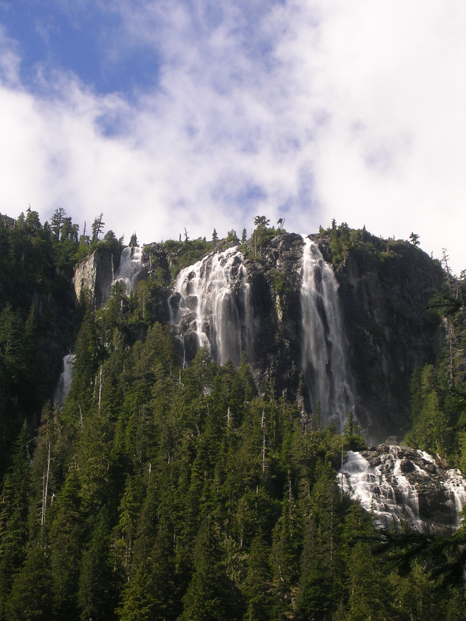 Della Falls, from the base of the falls. Strathcona Provincial Park, British Columbia